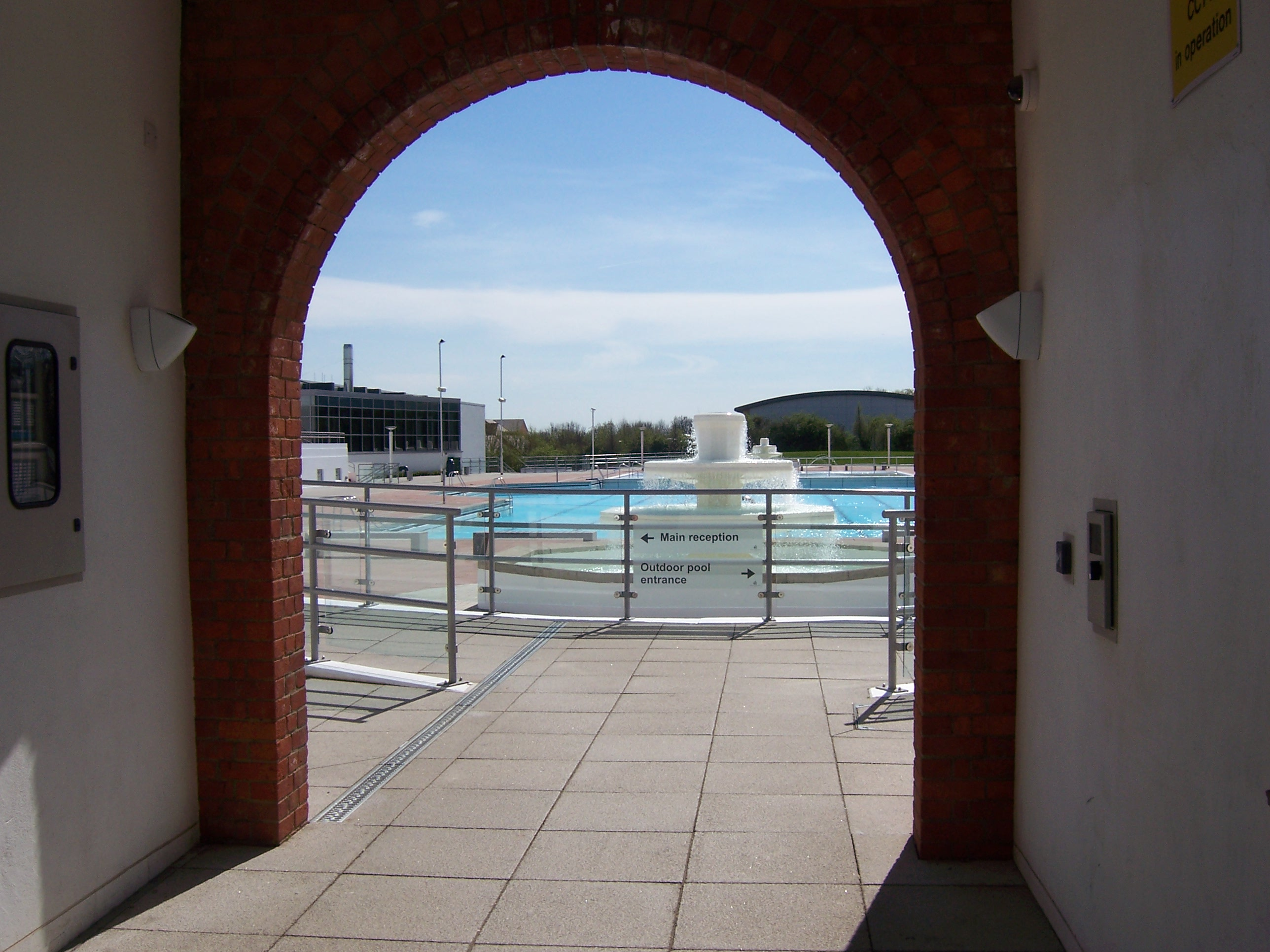 Entrance of the refurbished Uxbridge Lido